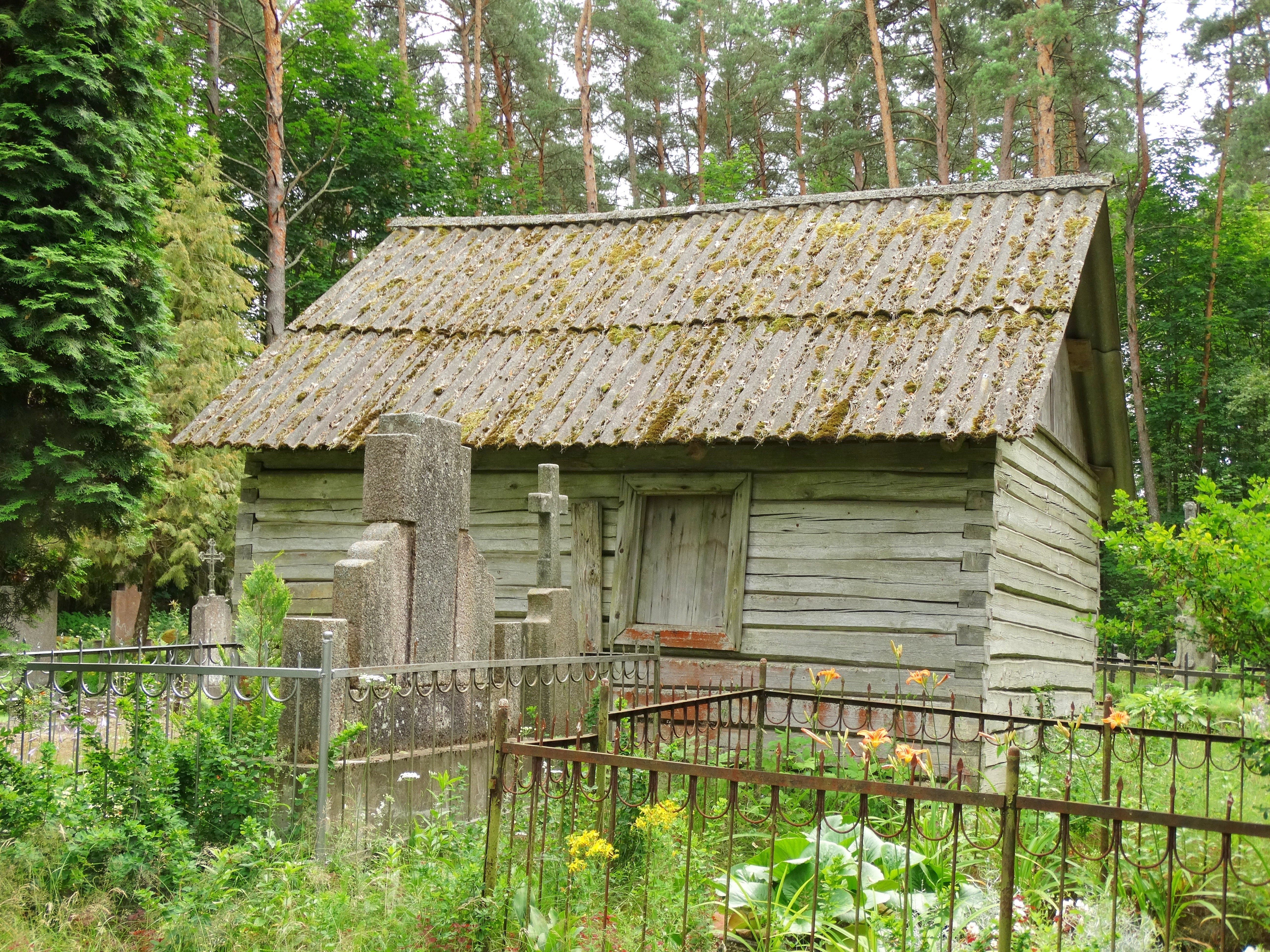 Chapel, Grybėnai, Ignalina District, Lithuania